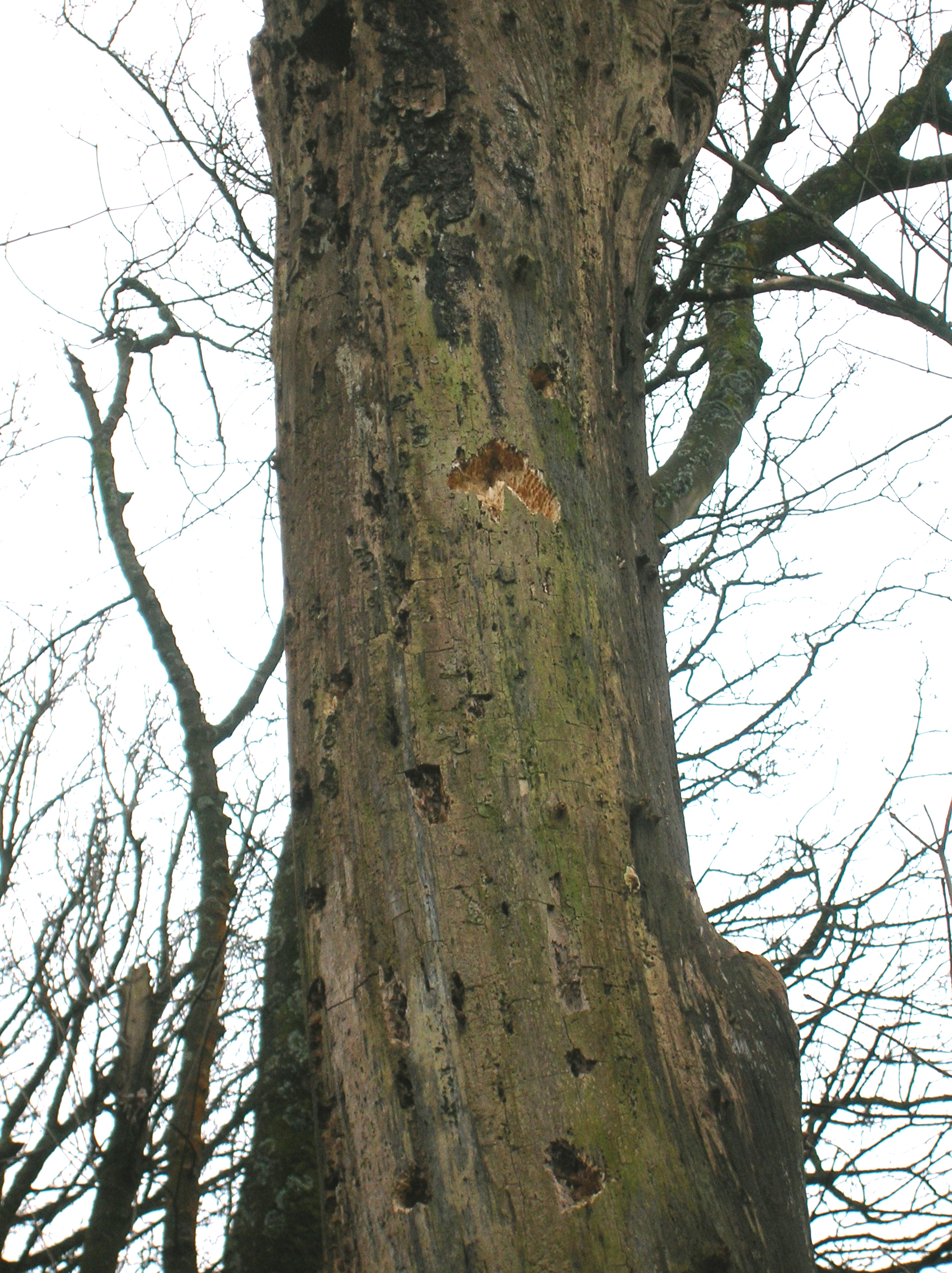 Beith Town House, North Ayrshire, Scotland.